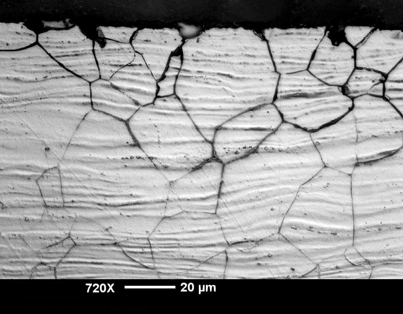 Intergranular corrosion attack in austenitic cold rolled stainless steel sheet